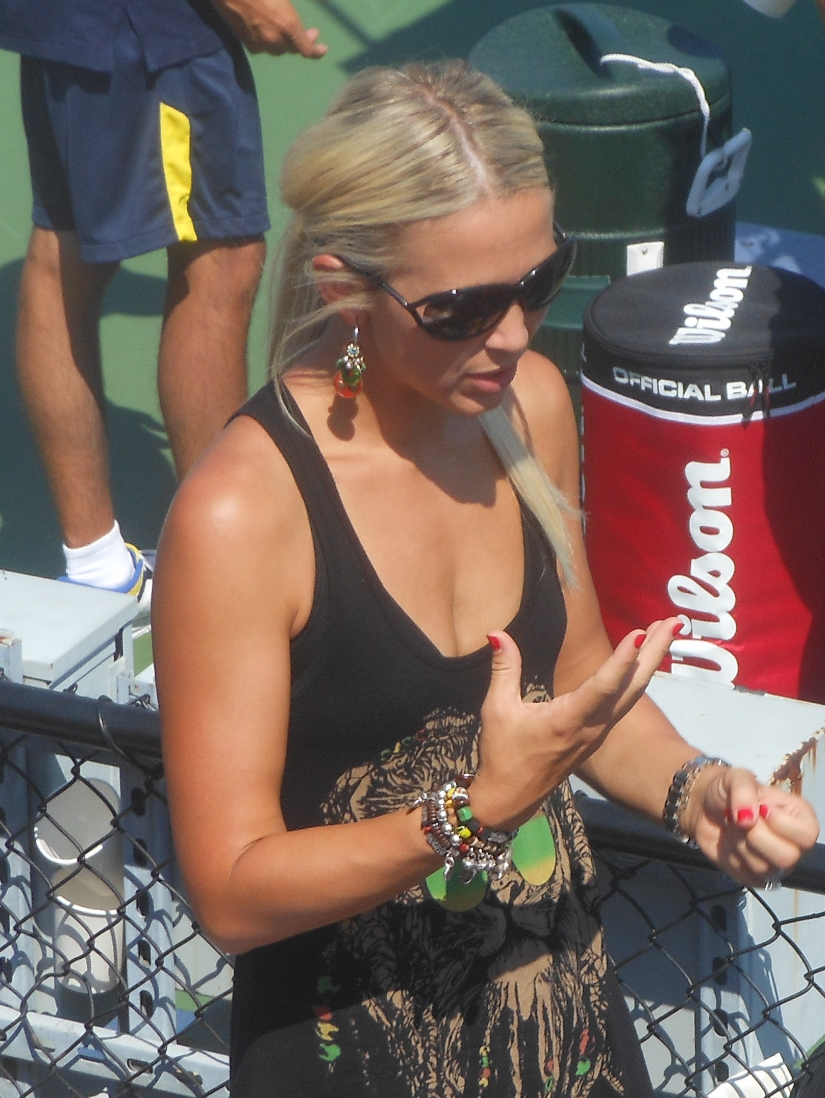 Bec Cartwright Hewitt. Also known as Rebecca Cartwright, Lleyton Hewitt's wife at the US Open.